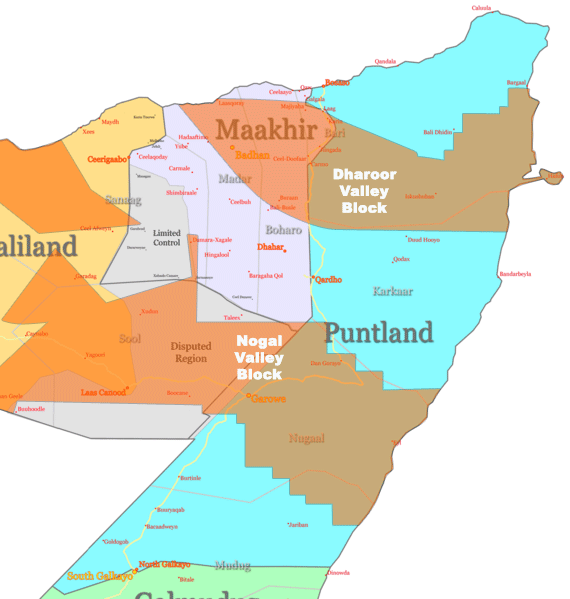 Range Resources/African oil concessions superimposed over political map of these regions